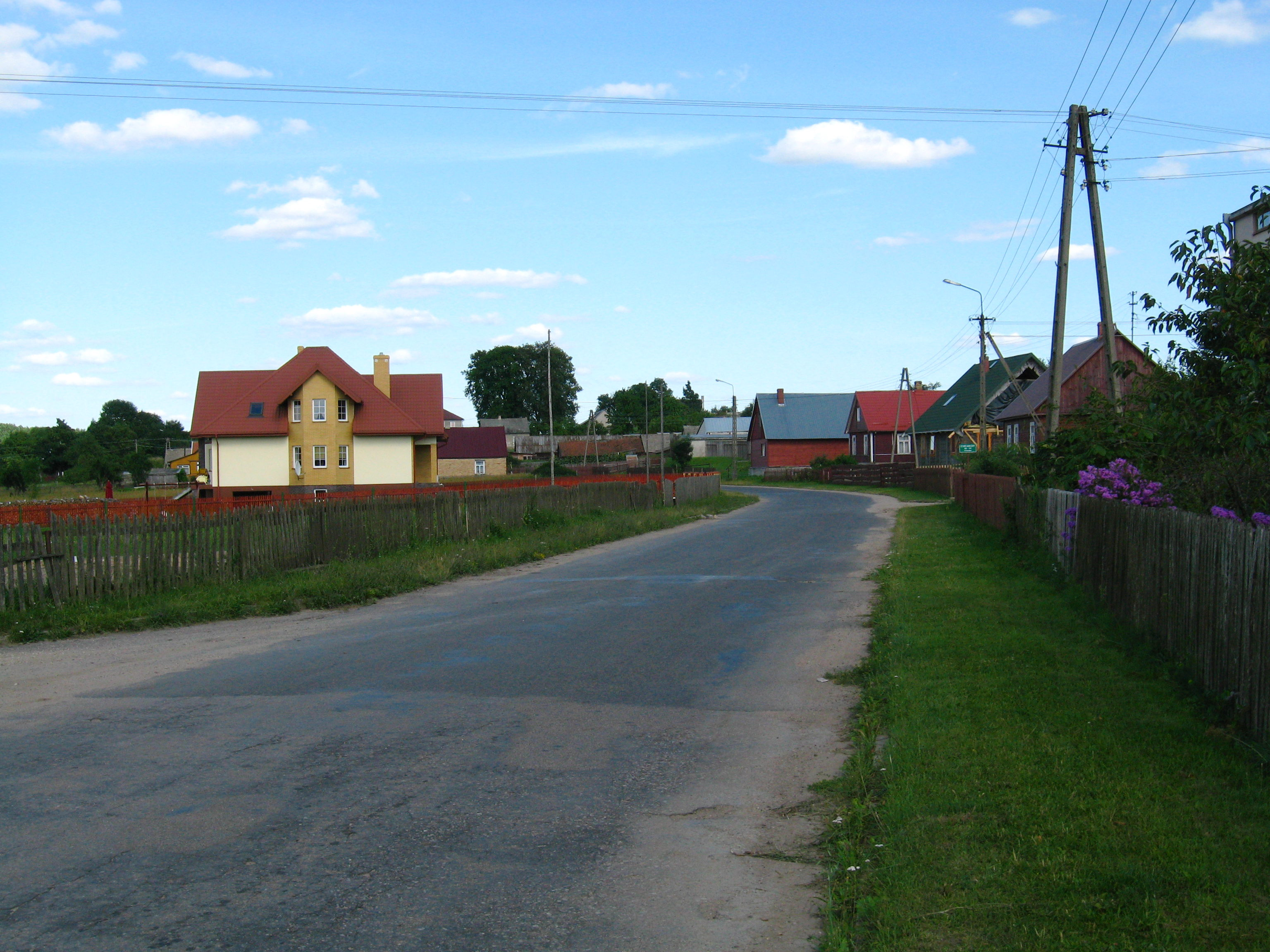 Chraboły